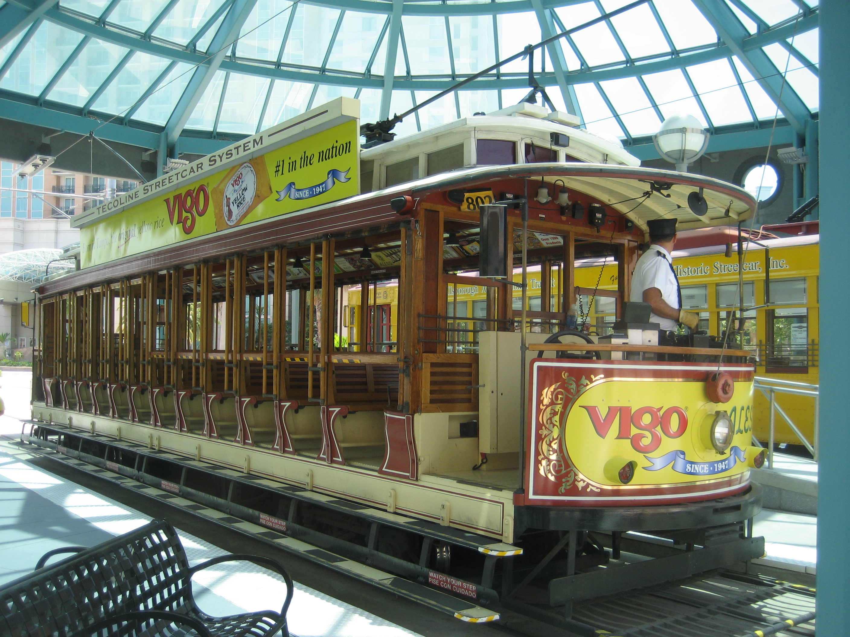 Tampa, Florida. Gomaco-built "breezer" streetcar at Greco Plaza stop.